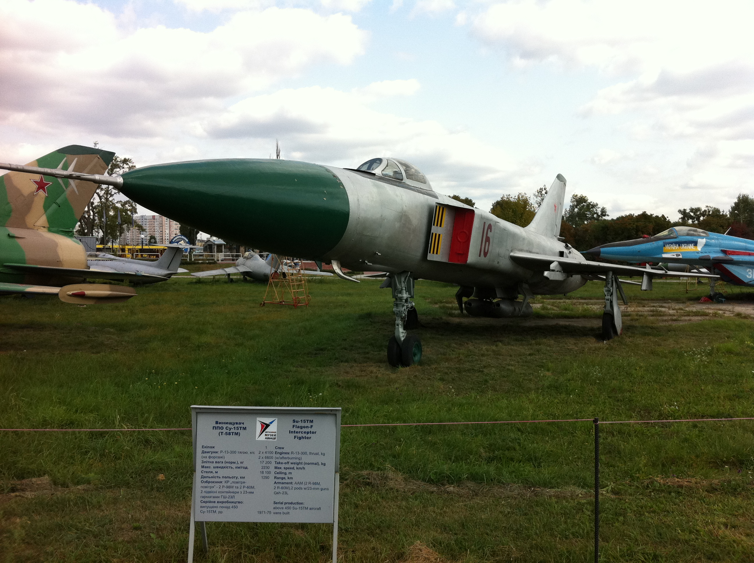 A Sukhoi Su-15 at the Aviation museum of Zhulyany Airport, Kiev, Ukraine